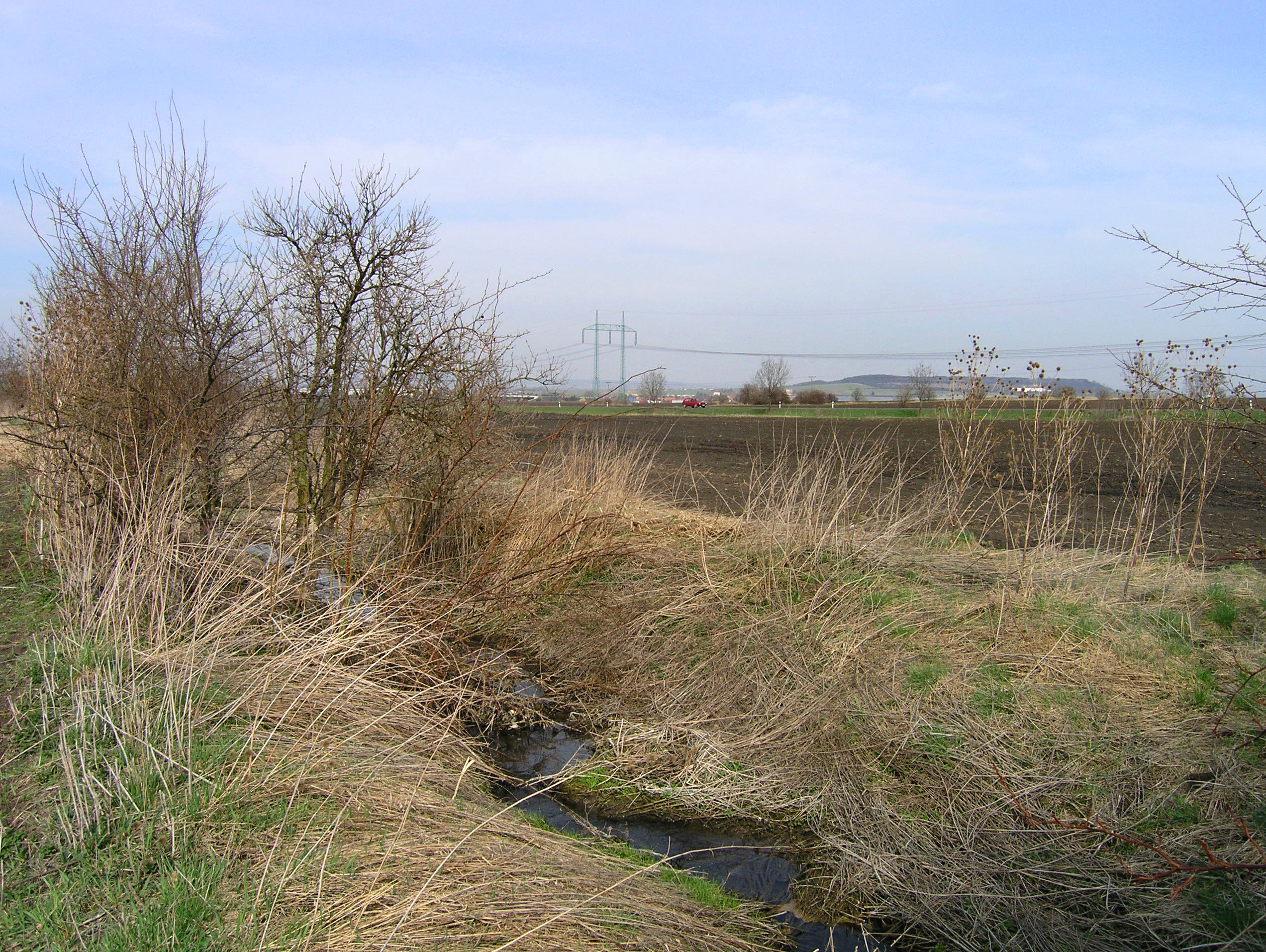 Posrřižinský Creek between Kozomín and Postřižín, Czech Republic